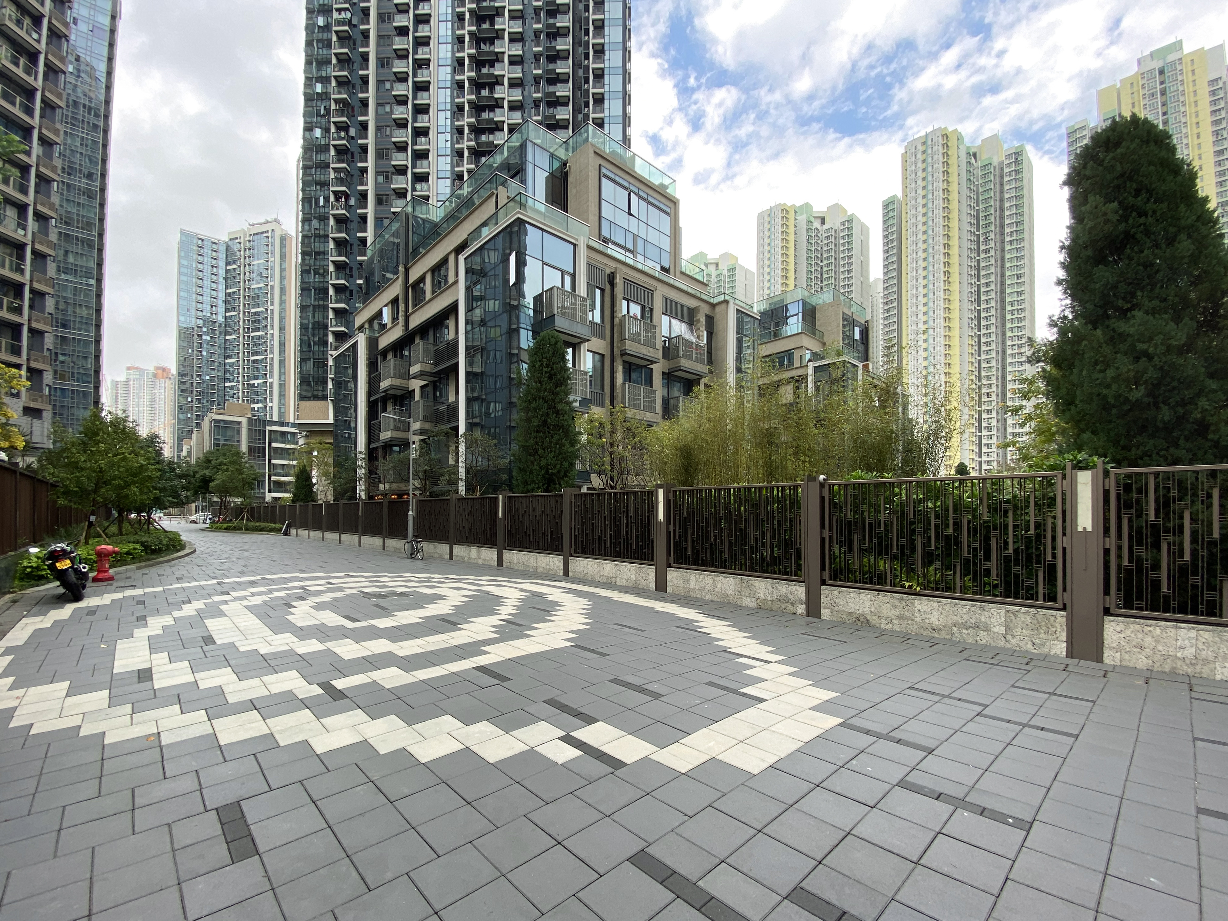 Chun Chi Lane South